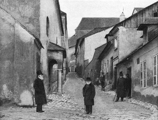 One of the most famous photographs of the Mikulov Jewish ghetto. The picture shows a view from the "lower" synagogue towards the "upper" one. The lower synagogue is no longer standing, the upper one is still there.